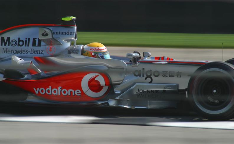 Lewis Hamilton driving for McLaren at the 2007 United States Grand Prix.